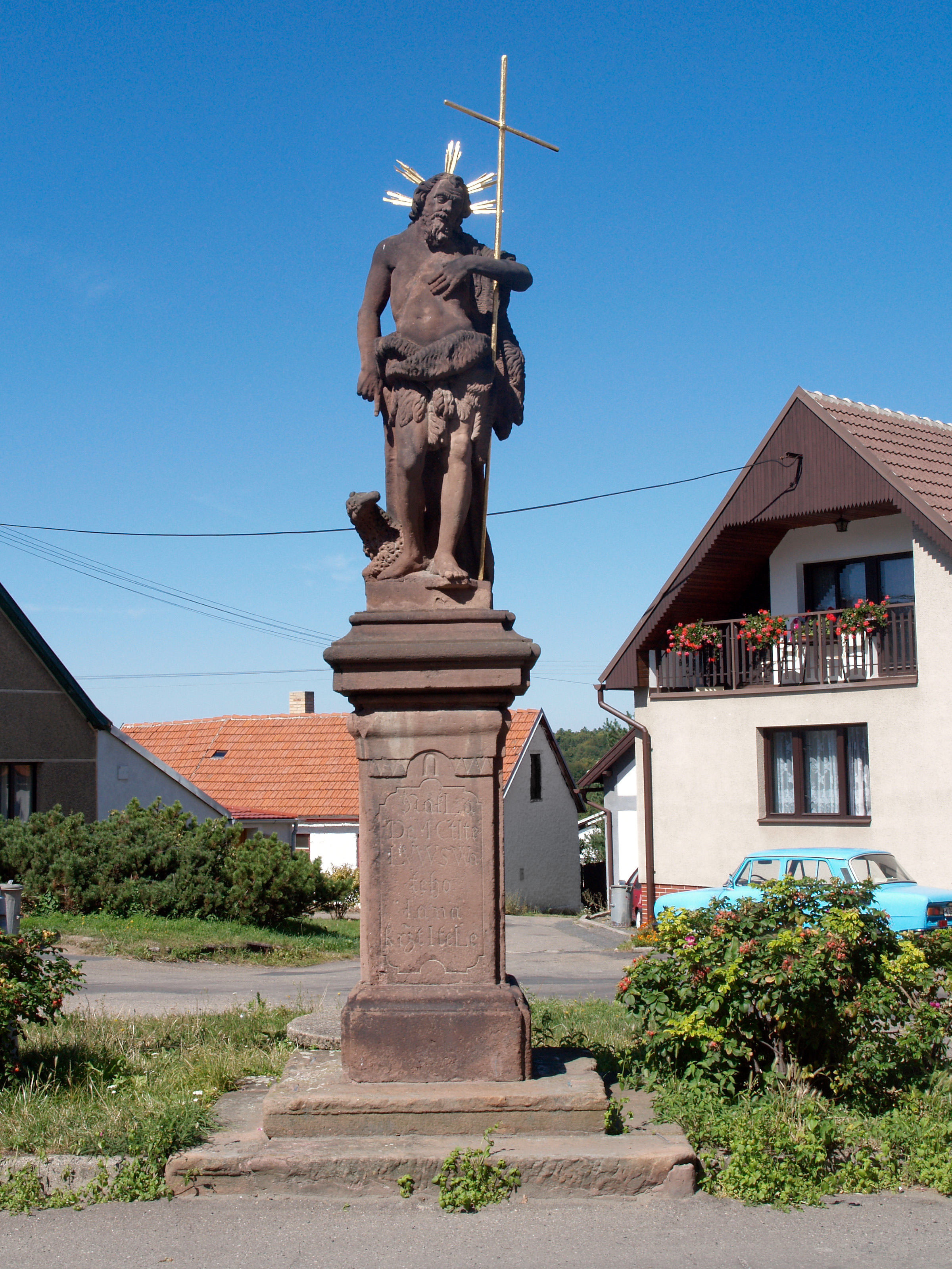 Statue of John the Baptist in Czech town Kostelec nad Černými lesy